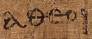 The Greek word "atheoi" αθεοι ("[those who are] without god") as it appears in the Epistle to the Ephesians 2:12, on the early 3rd-century Papyrus 46. This word - in any of its forms - appears nowhere else in the New Testament or the Koine Greek version of the Old Testament. Catalog entry: P.Mich.inv. 6238; 149; Verso Date: End of IInd century - first half of IIIrd century A.D. (?) Origin: unknown Provenance: unknown Acquisition: purchased in 1930/1931 Language: Greek Genre: literary Author: St. Paul Type of Text/Title of Work: Epistles of Paul Content: Ephesians II, 10 - II, 20. Bibliography: Van Haelst 0497; Aland, Repertorium, I, 0105, NT 46; LDAB 3011; for literature, see K. Aland, Repertorium der griechischen christlichen Papyri (1976), I, pp. 42-44. Context: English translation from NIV: :2:11Therefore, remember that formerly you who are Gentiles by birth and called "uncircumcised" by those who call themselves "the circumcision" (that done in the body by the hands of men)— 2:12remember that at that time you were separate from Christ, excluded from citizenship in Israel and foreigners to the covenants of the promise, without hope and without God in the world. Ephesians 2:11–3:21 is a description of the change in the spiritual position of Gentiles as a result of the work of Christ. It ends with an account of how Paul was selected and qualified to be an apostle to the Gentiles, in the hope that this will keep them from being dispirited.